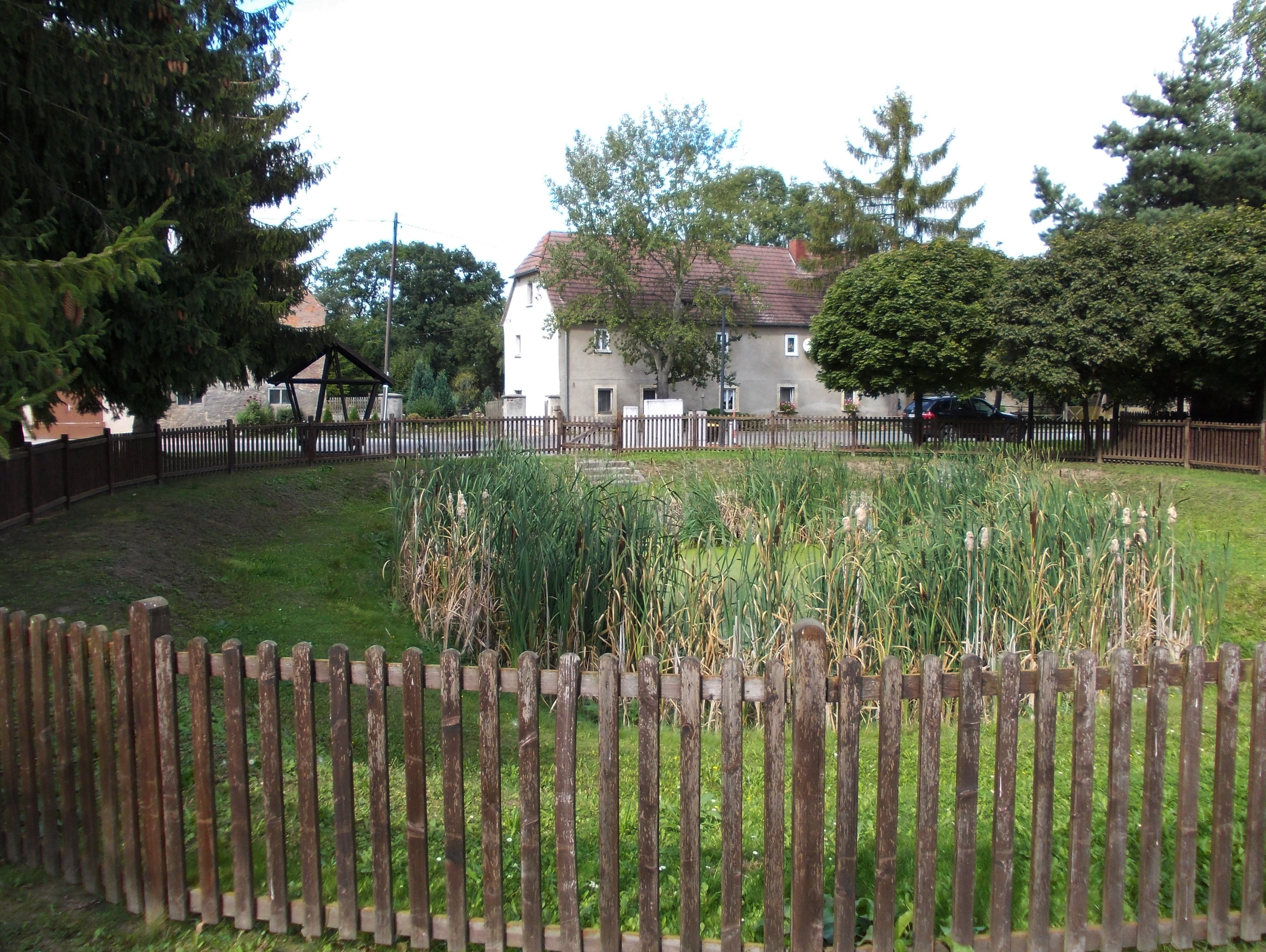 Pond in Pretzsch (Meineweh, district of Burgenlandkreis, Saxony-Anhalt)